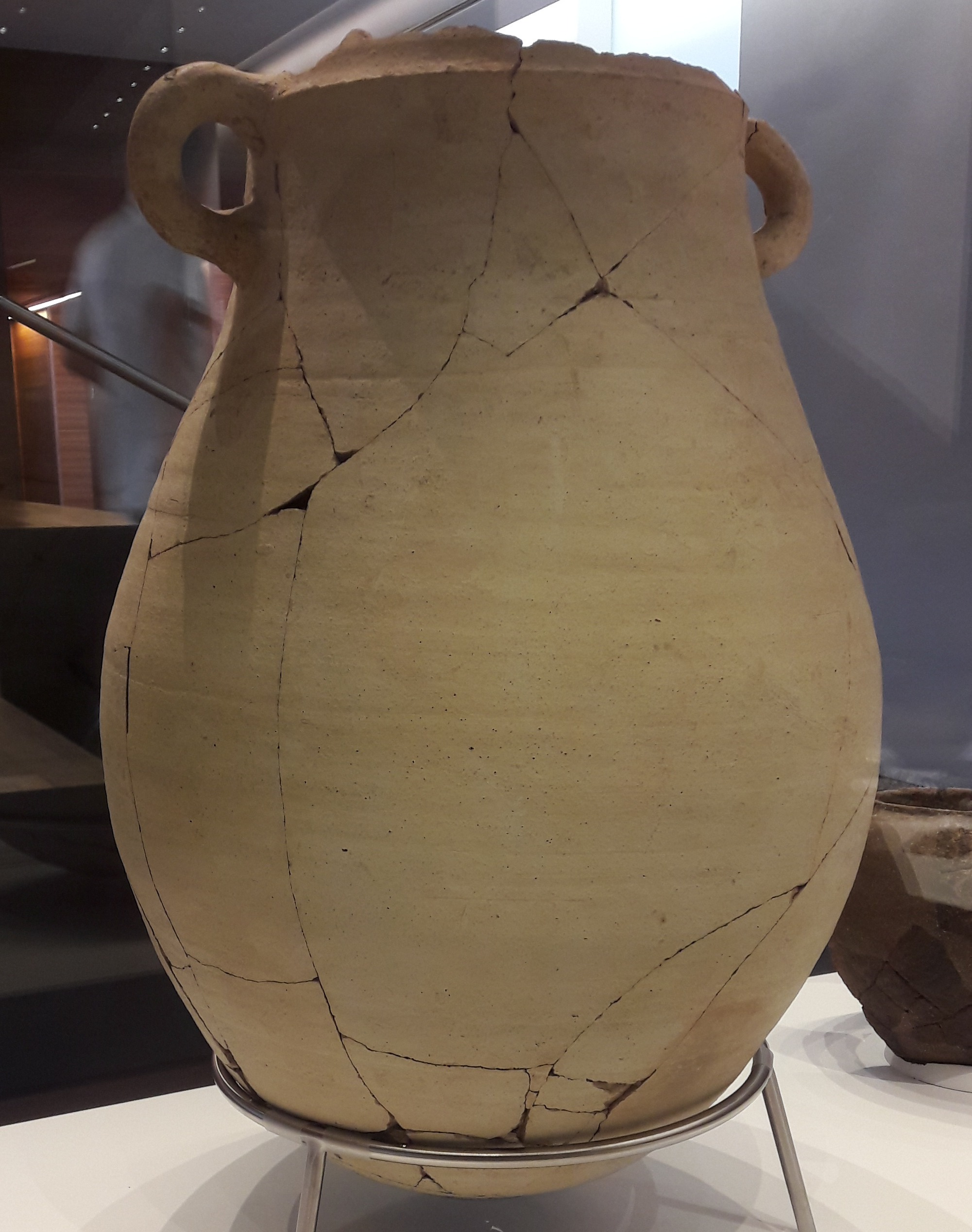 Water amphora sunk into the workshop floor. Clay. 6th century BC. From Cerro del Villar, Málaga. Museo de Málaga, Spain.